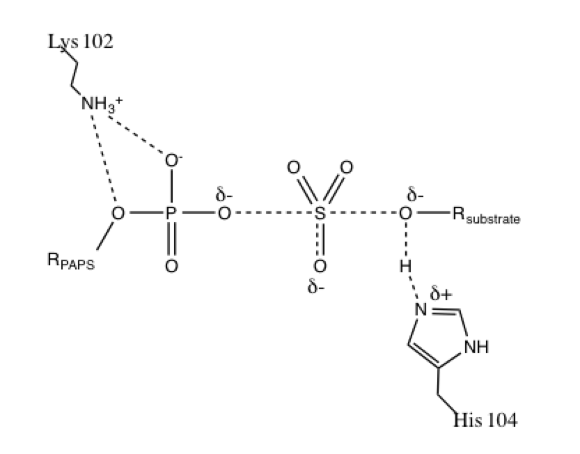 Transition state for sulfotransferase proposed by Chapman et al. 2004.